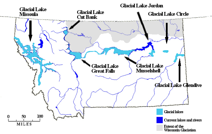 Map of Montana in the northwestern United States — showing notable ancient glacial lakes of the last ice age period in North America. Information based on: Alden, W.C. Physiography and Glacial Geology Of Eastern Montana and Adjacent Areas. Professional Paper 174. Washington, D.C.: U.S. Geological Survey, 1958; Lemke, R.W.; Laird, W.M.; Tipton, M.J.; and Lindvall, R.M. "Quaternary Geology Of Northern Great Plains." In The Quaternary of the United States. H.E. Wright, Jr. and D.G. Frey, eds. Princeton, N.J.: Princeton University Press, 1965; Stickney, Michael C. "Quaternary Geology and Faulting in the Helena Valley." In 1987 Guidebook for the Helena Area, West-Central Montana: Guidebook for the 12th Annual Field Conference. Richard B. Berg and Ray H. Breuninger, eds. Montana Bureau of Mines and Geology Special Publication 95. Helena, Mont.: Montana Bureau of Mines and Geology, 1987.